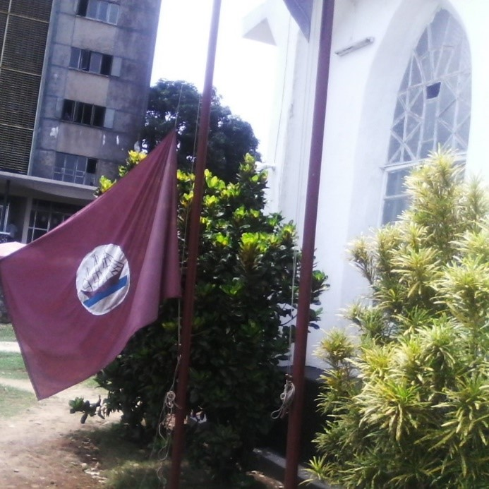 The red colour signifies both the colour of the maroons, and political authority.